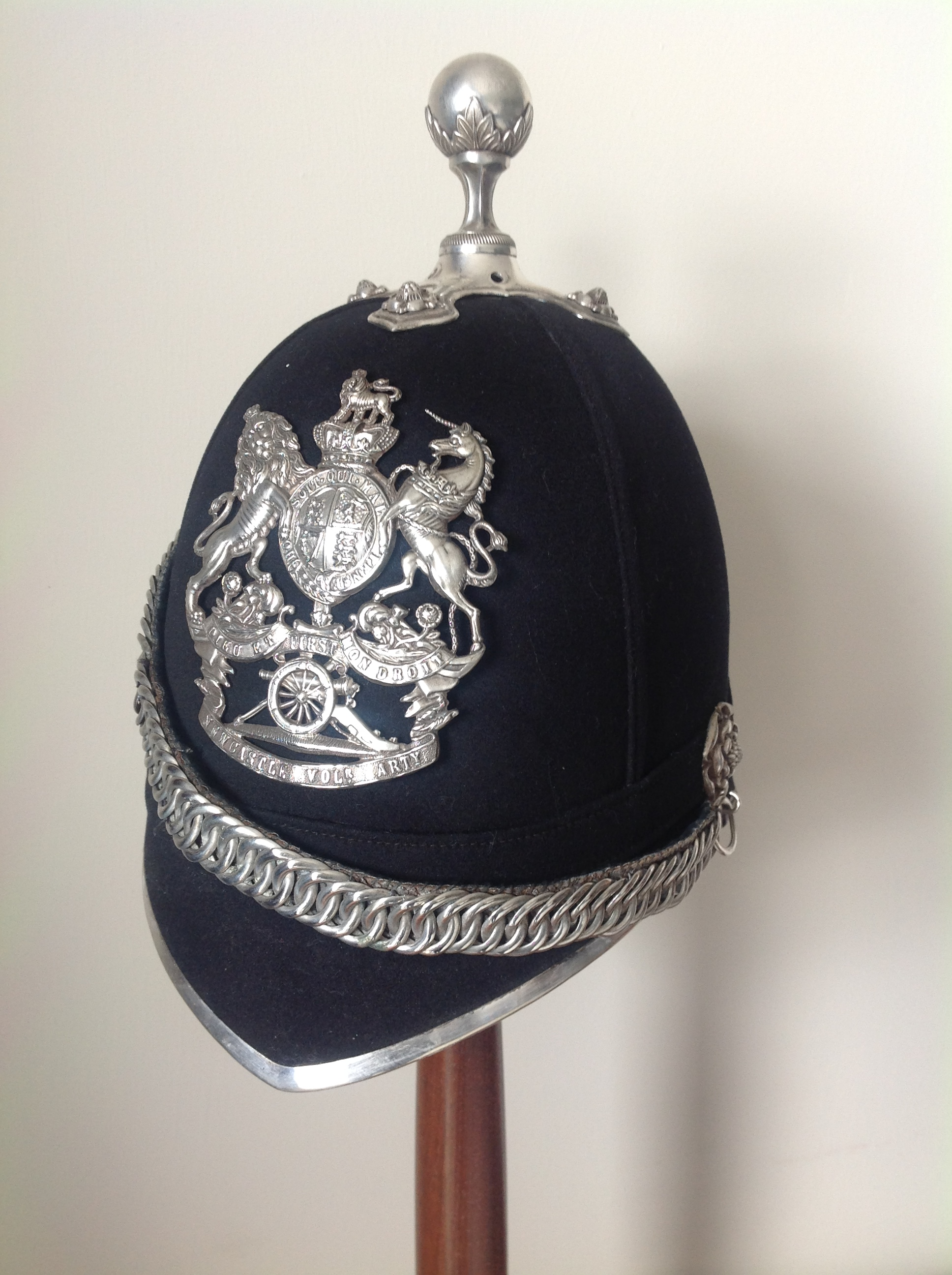 Officers Home Service Pattern Helmet of the 1st Newcastle-on-Tyne Volunteer Artillery, 1891-1901